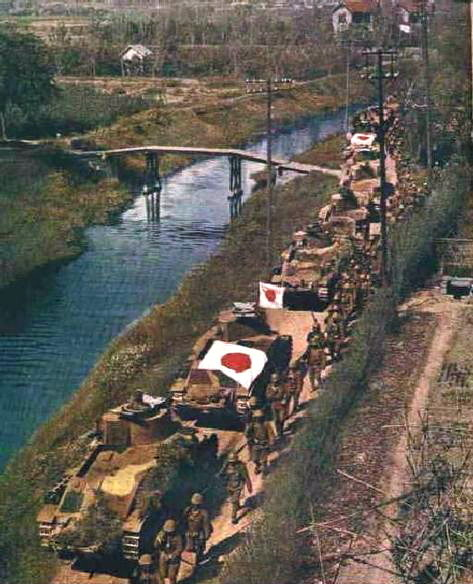 Column of IJA Type 89 medium tanks enter Nanking.